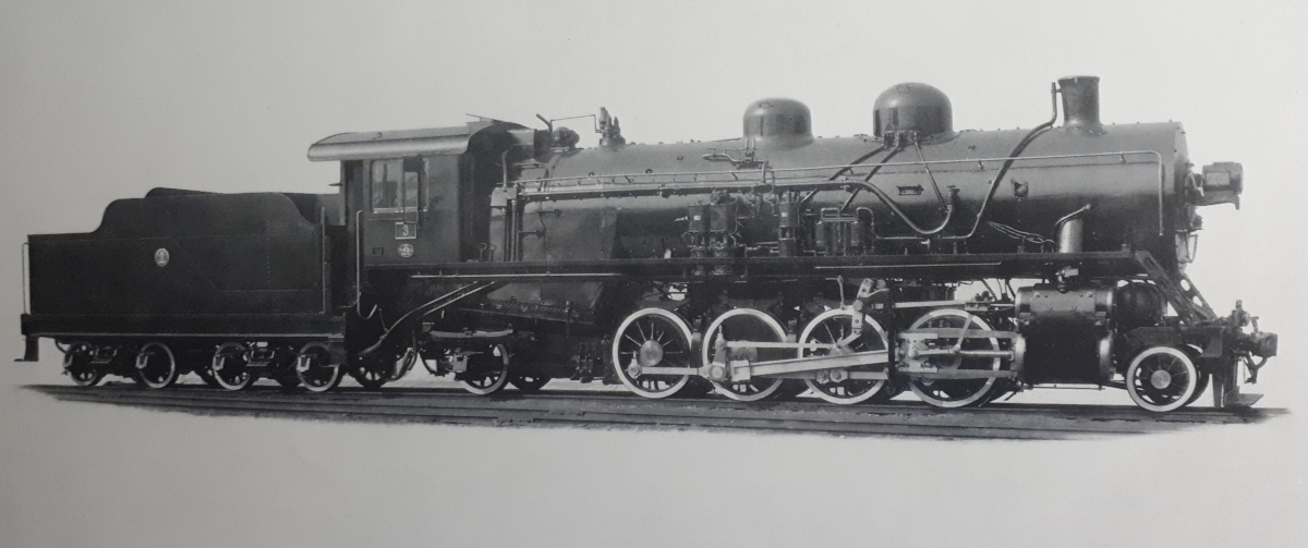 Builder's photo of locomotive number 3 of the North Chosen Colonial Railway